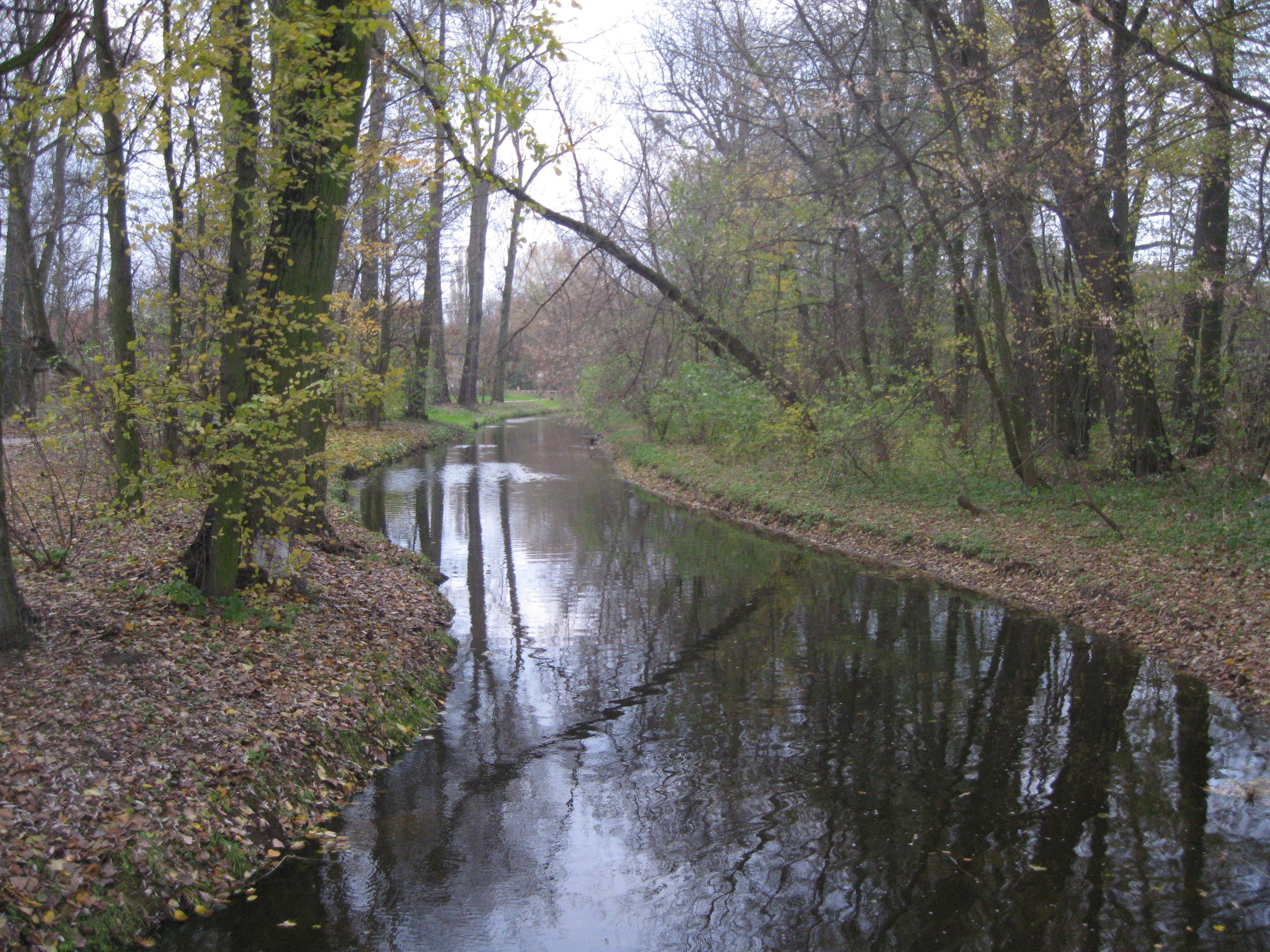 Wrześnica river in Józef Piłsudski Park (Września, Poland)